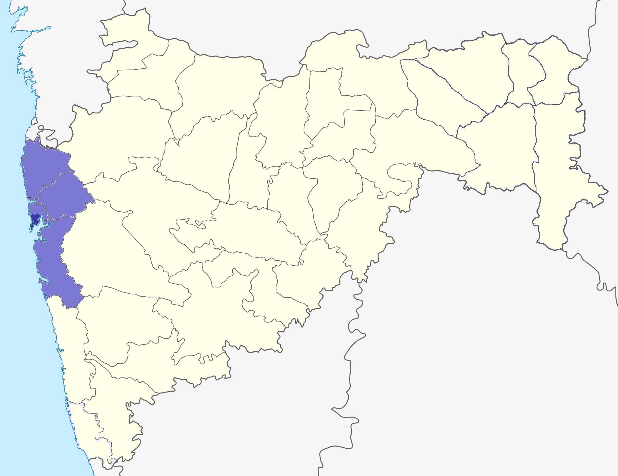 Dark Blue: Mumbai City (Bombay) Light Blue: Rest of the Mumbai Metropolitan Region